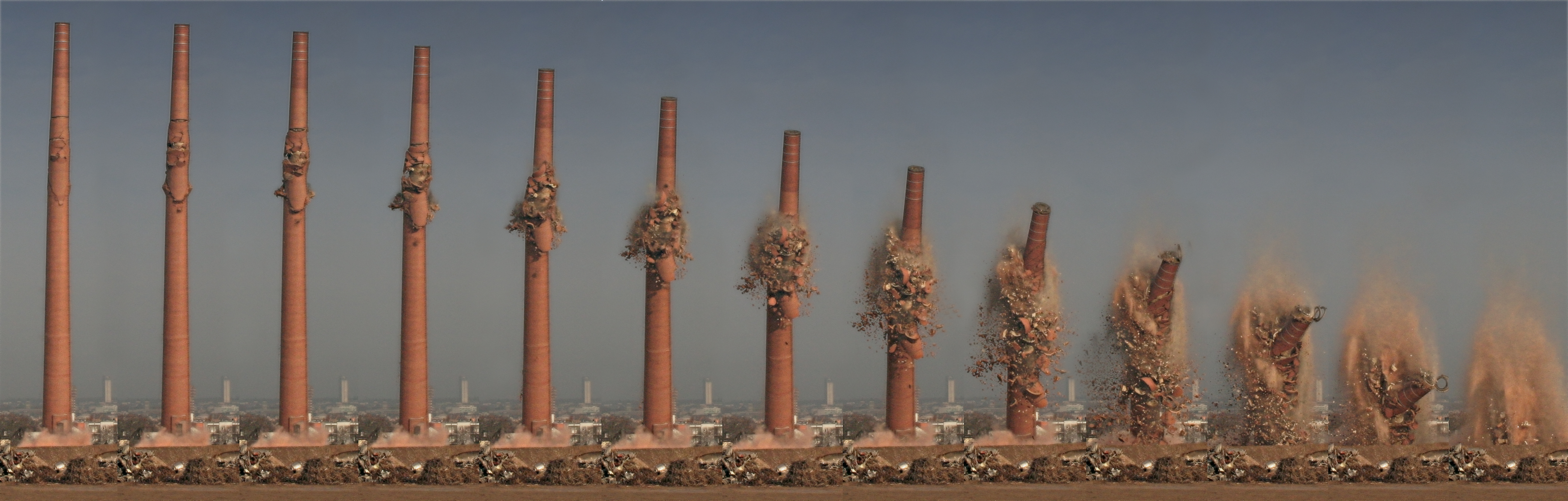 Blasting of a chimney at the former Henninger brewery in Frankfurt am Main, Germany, Sachsenhausen.